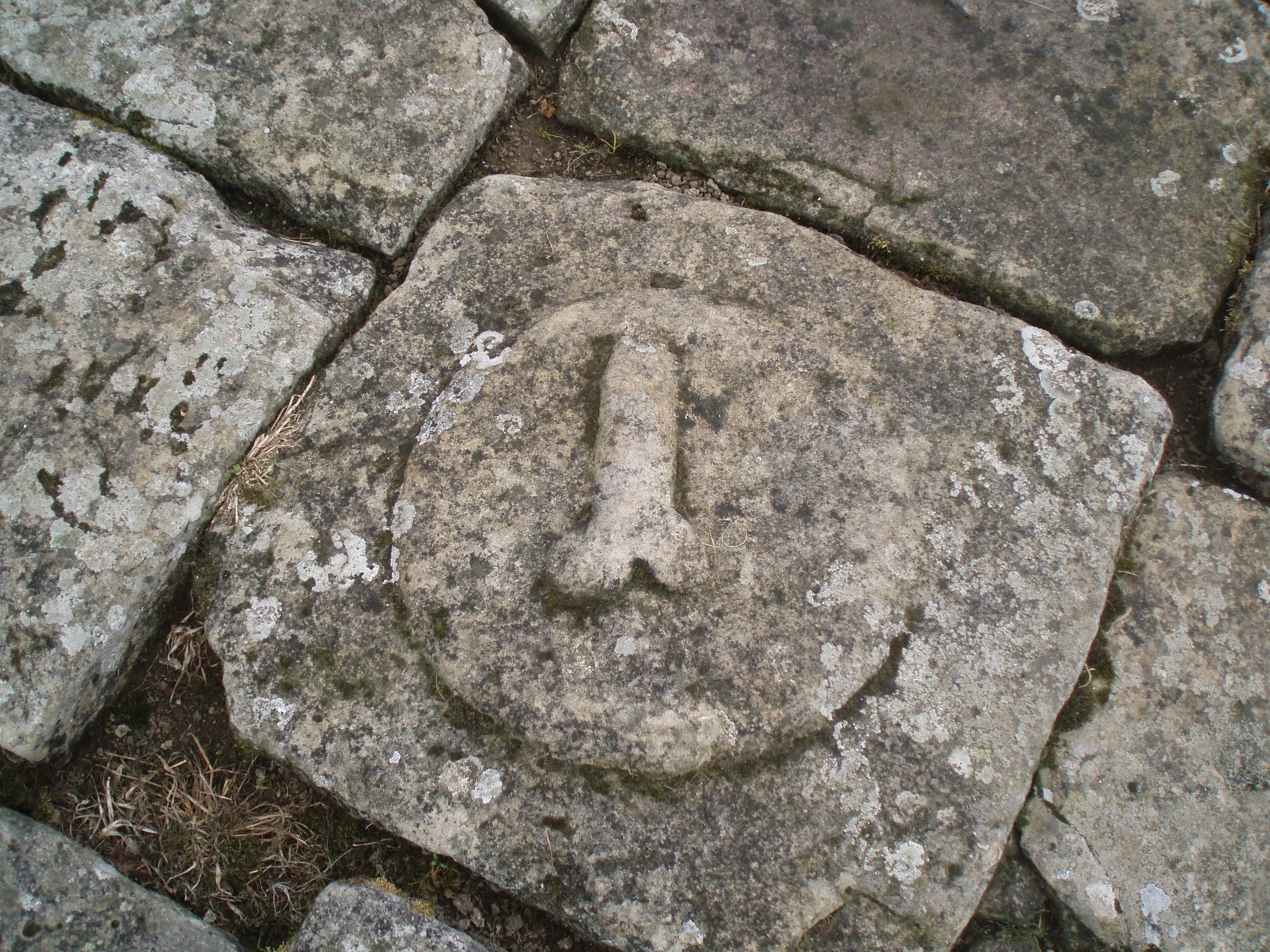 Petrosomatoglyph, Chesters Roman fort, 2nd C AD